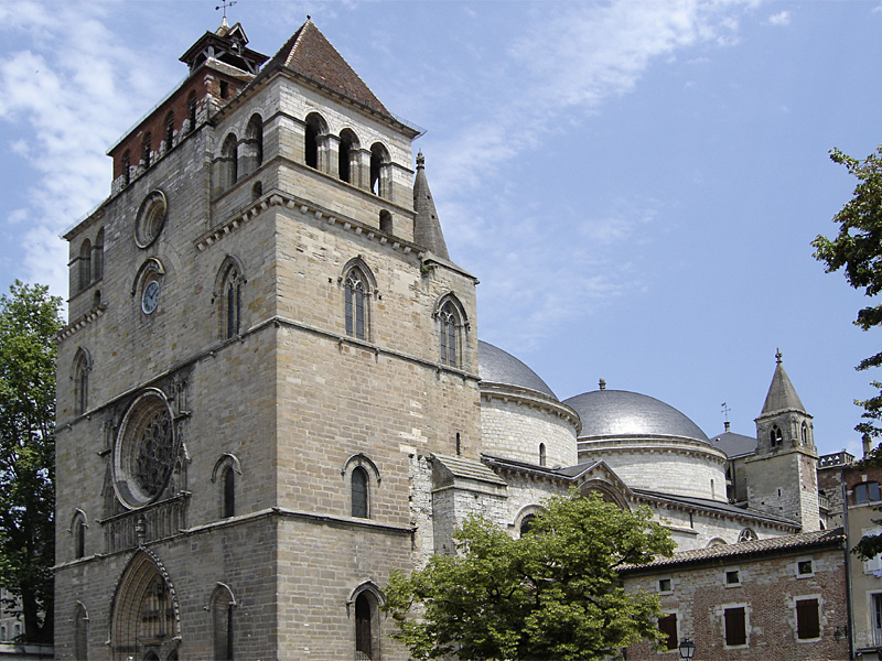 The Romanesque saint Stephen's cathedral at Cahors, France.